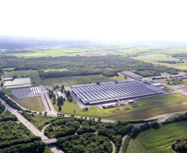 photo